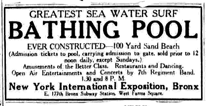 newspaper ad for the large bathing pool at the fair